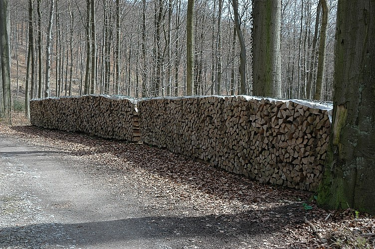 Fuelwood, beech, Germany